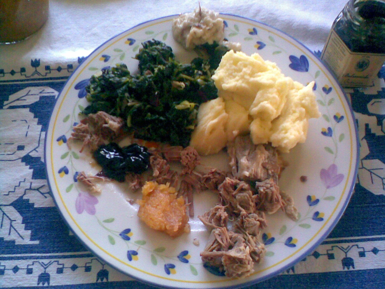 italian food Boiled meat with spinac, mostarda vicentina, purè and Modena balsamic vinegard Jelly. Tipical winter food in north Italy